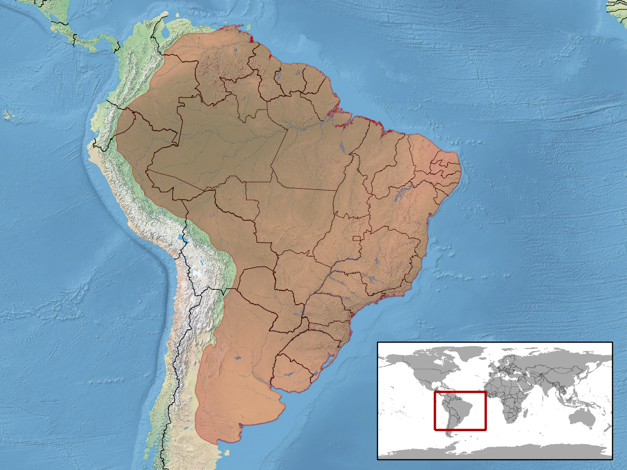 geographic distribution of Amphisbaena alba (Native: Bolivia, Plurinational States of; Brazil; Colombia; Ecuador; French Guiana; Guyana; Panama; Paraguay; Peru; Suriname; Trinidad and Tobago; Venezuela)